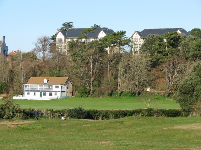 Exmouth Cricket Ground